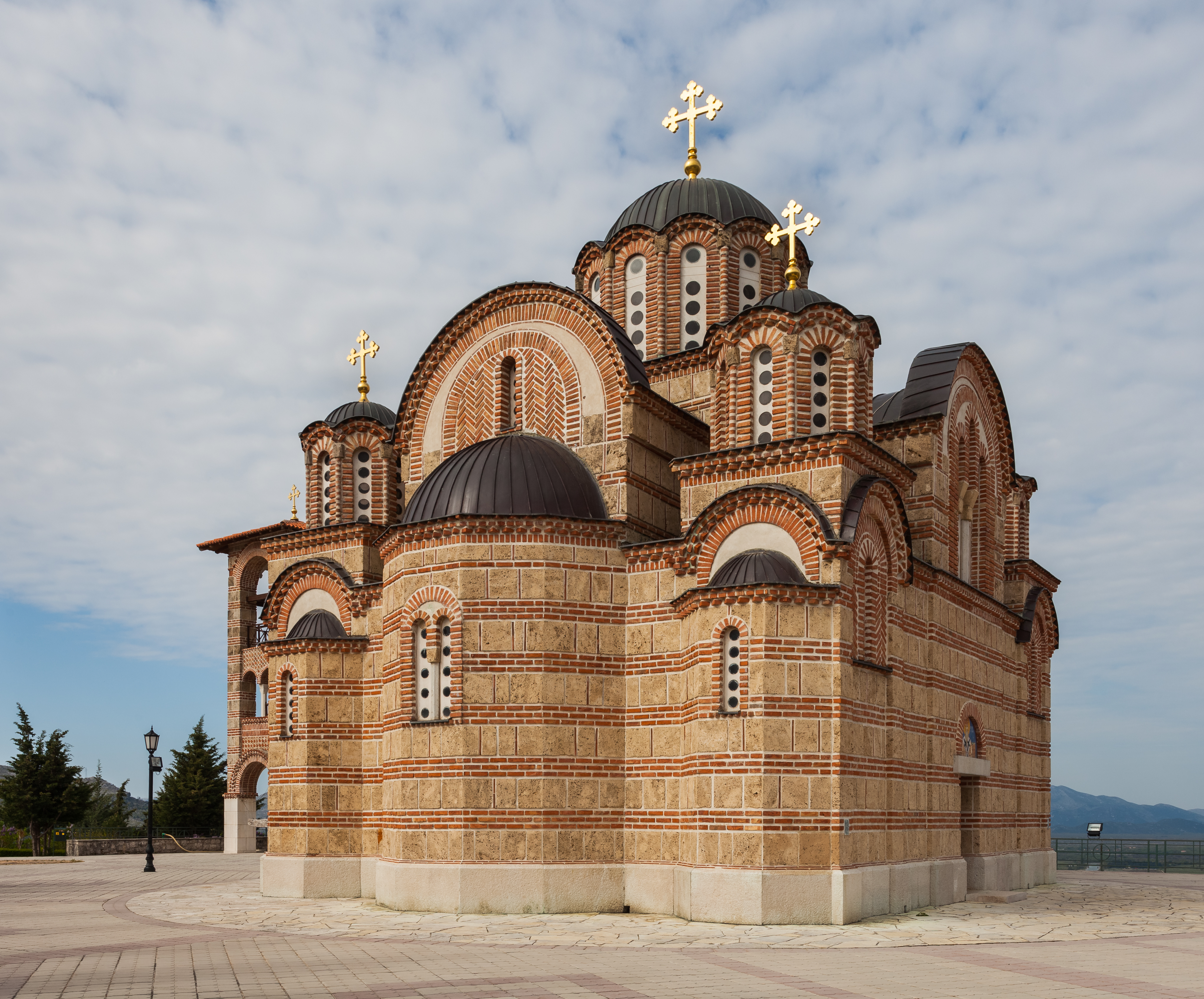 Nova Gracanica church, Trebinje, Bosnia and Herzegovina